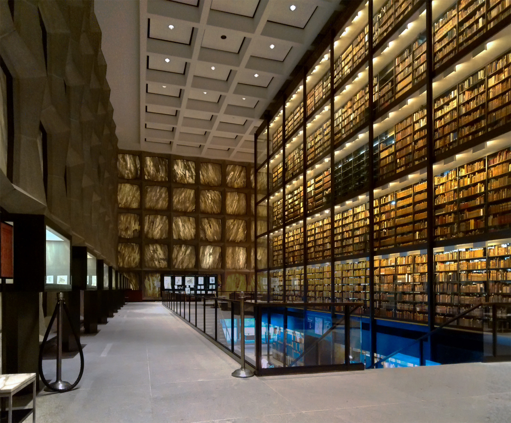 Beinecke Rare Book & Manuscript Library, 1960–1963, Gordon Bunshaft of Skidmore, Owings & Merrill (SOM), Yale University Hewitt Quadrangle (Beinecke Plaza), New Haven, Connecticut